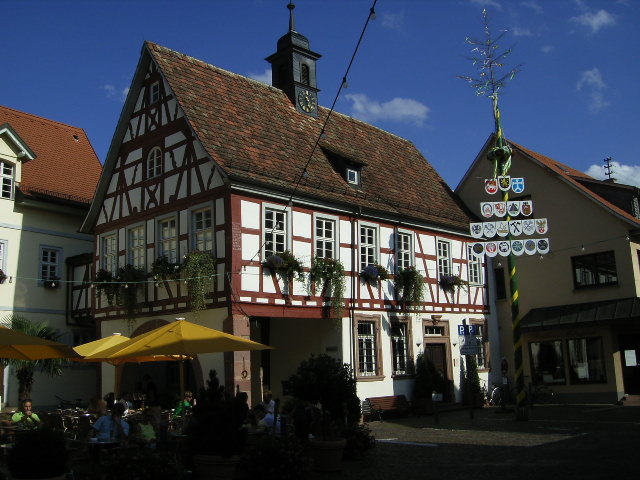 Townhall in Schriesheim, Rhein-Neckar-Kreis, Baden-Württemberg, Germany